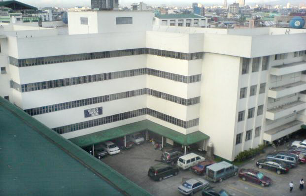 College of Education at University of the East, Metro Manila, Philippines